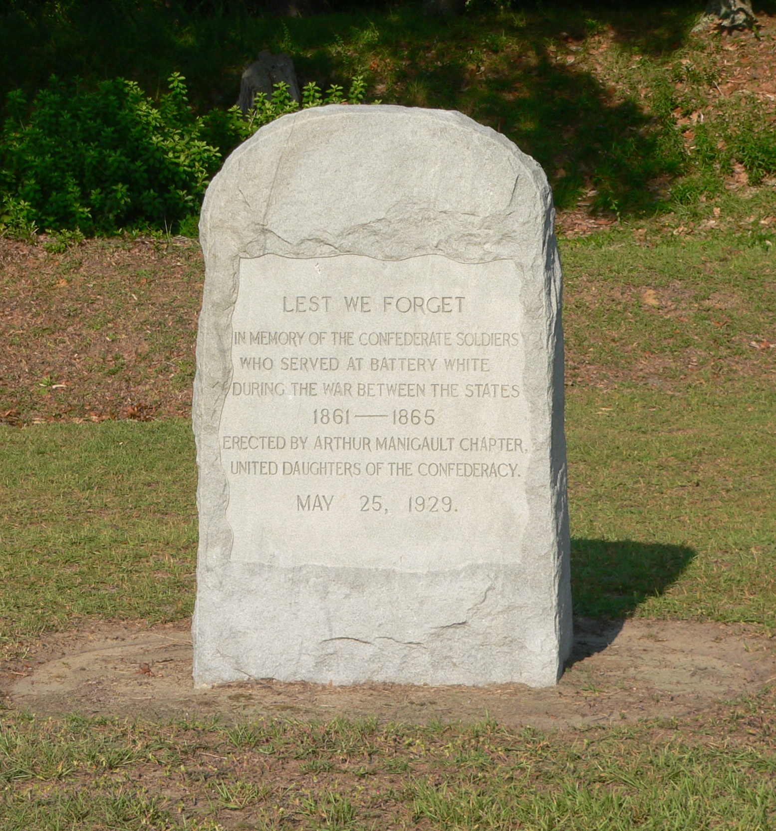 United Daughters of the Confederacy memorial marker at Battery White, located on Winyah Bay south of Georgetown, South Carolina.